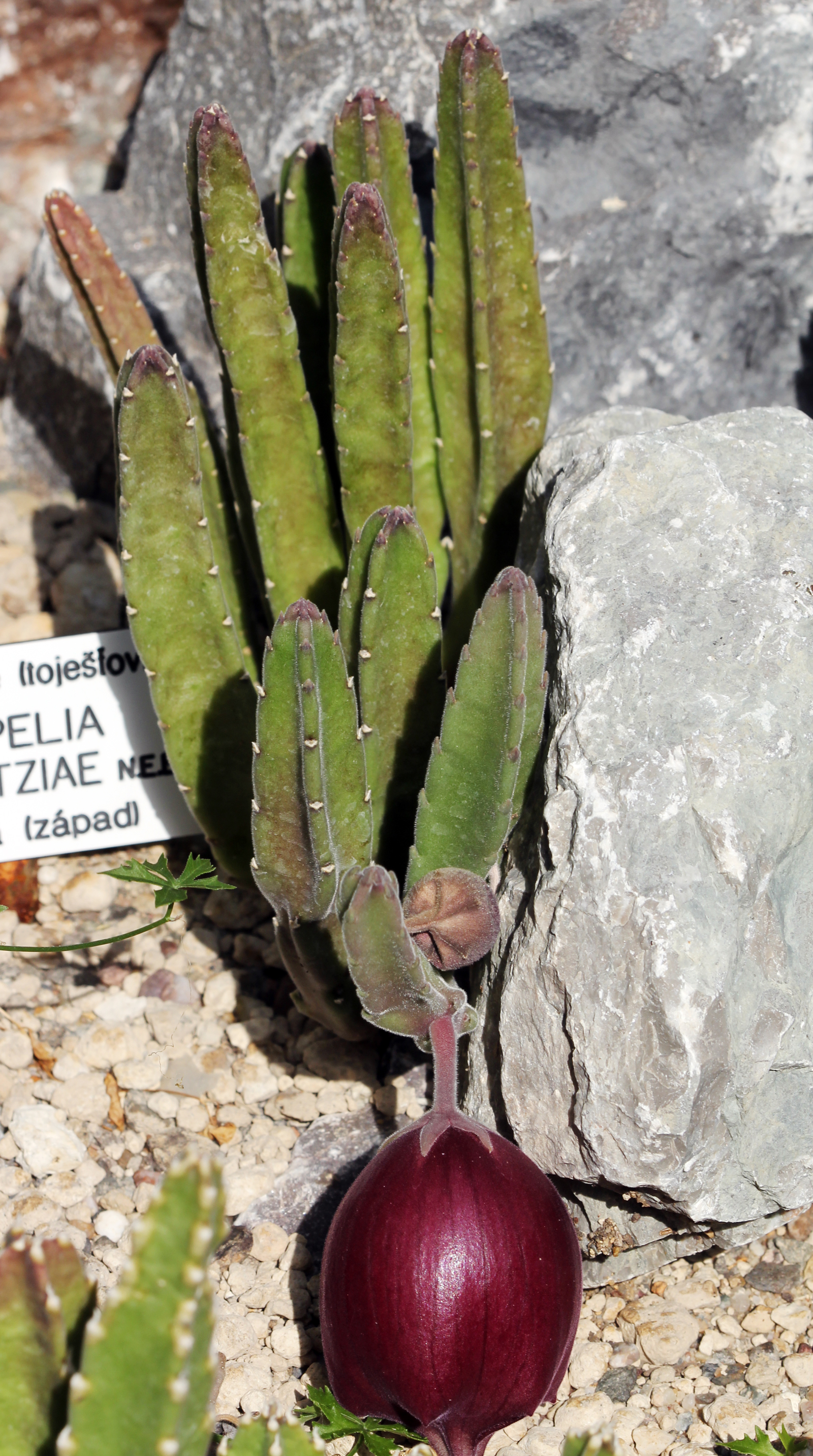 Plant Stapelia leendertziae, (Stapelia leendertziae), the Botanical Gardens of Charles University, Prague, Czech Republic